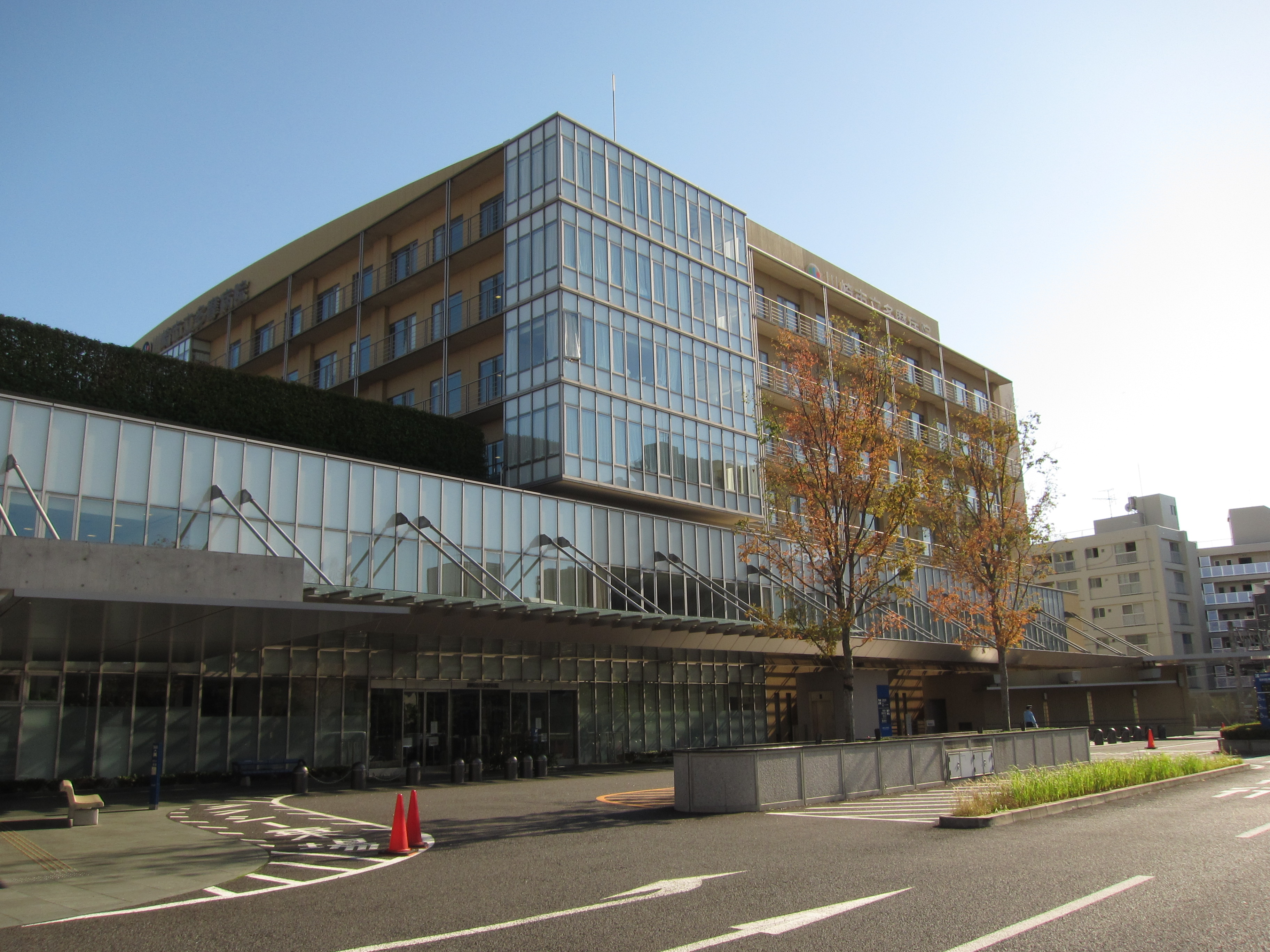 Kawasaki Municipal Tama Hospital